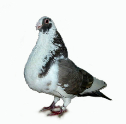 Granadino Cropper (Dun Splash) one of many spanish cropper breeds